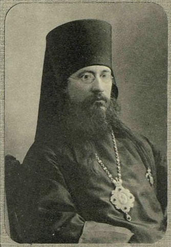 Evlogiy